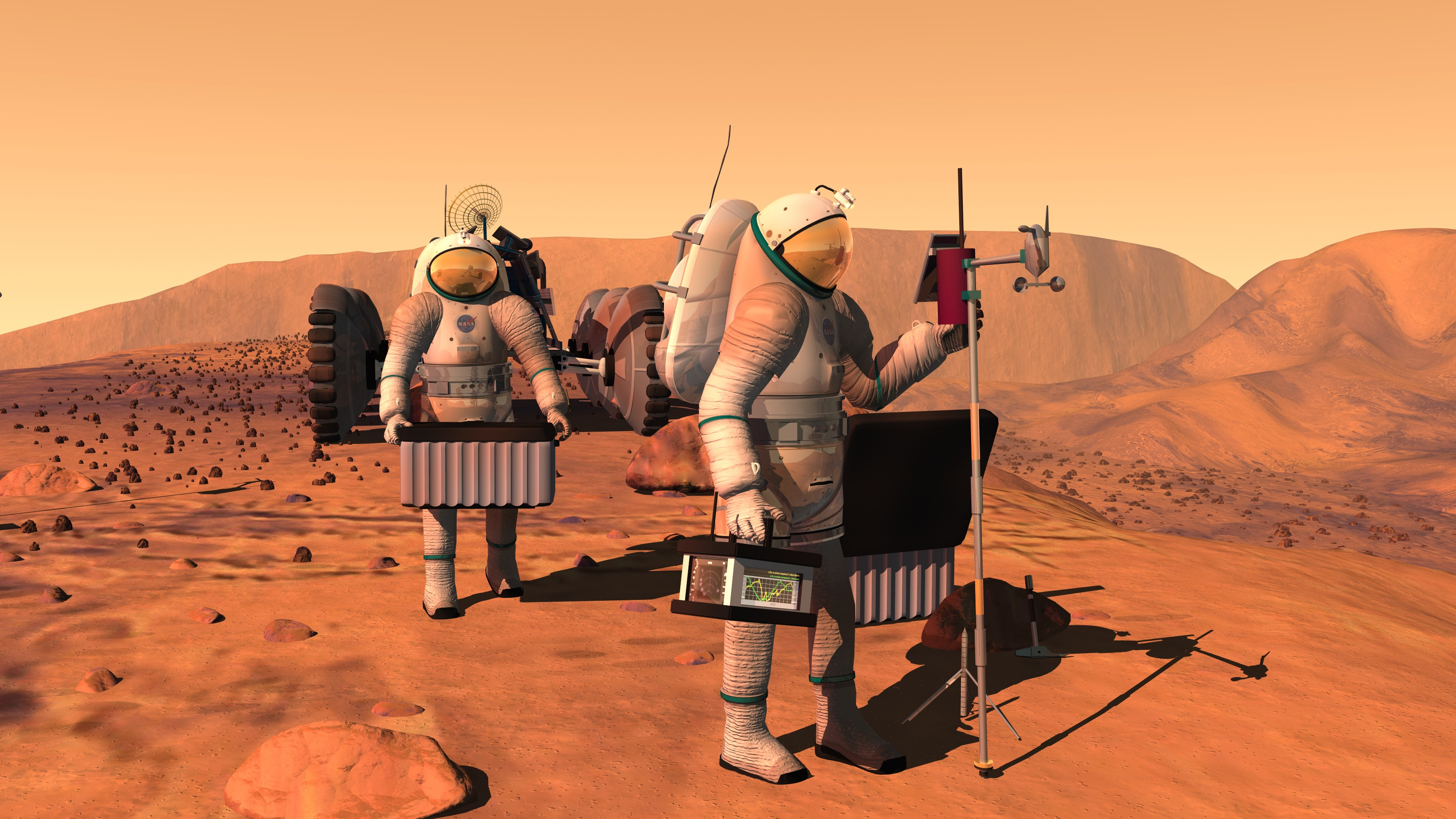 Manned mission to Mars (artist's concept)